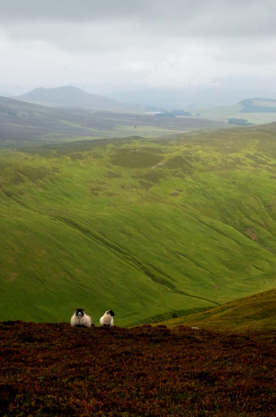 Carn a´Chlamain in the Scottish Highlands